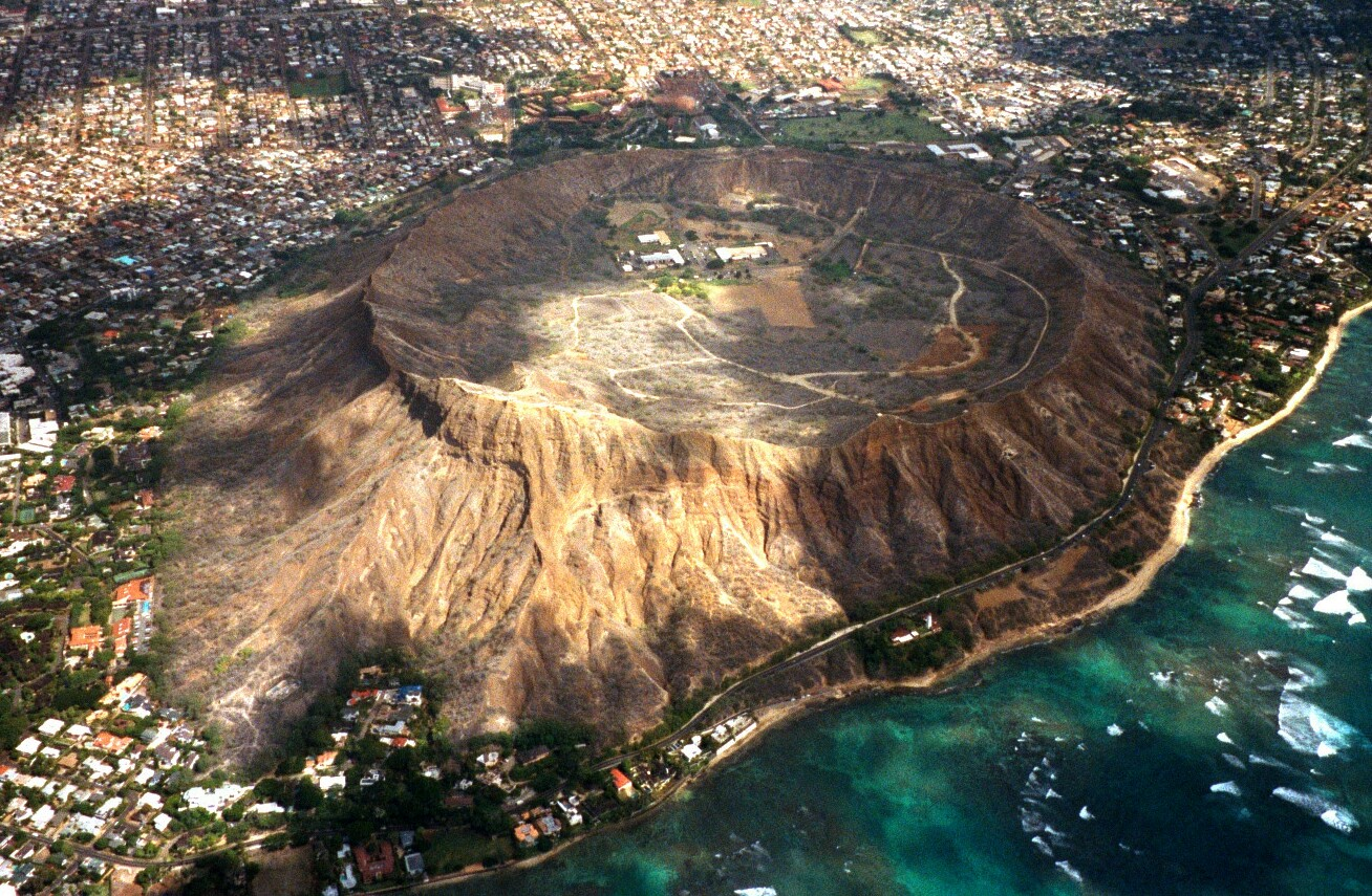 Diamond Head. Diamond Head is Oahu's largest tuff cone formed over 100,000 years ago by an active bubbling volcano. Nineteenth century British sailors nicknamed the crater Diamond Head when they mistook the calcite crystals for diamonds. A well-graded trail leads you up the 760-feet summit to a World War II bunker with a bird's eye view of Honolulu.